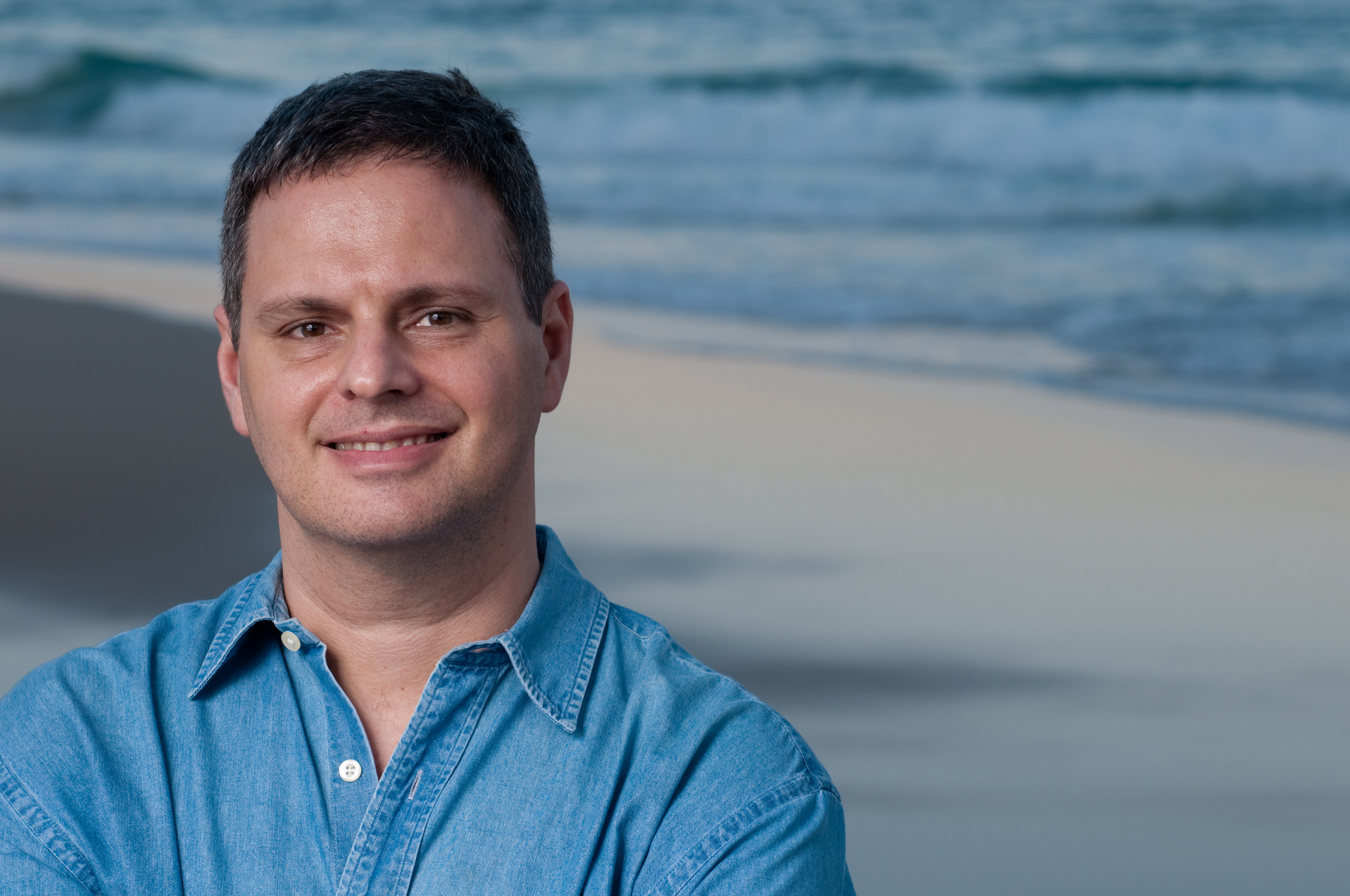 Ronaldo Wrobel